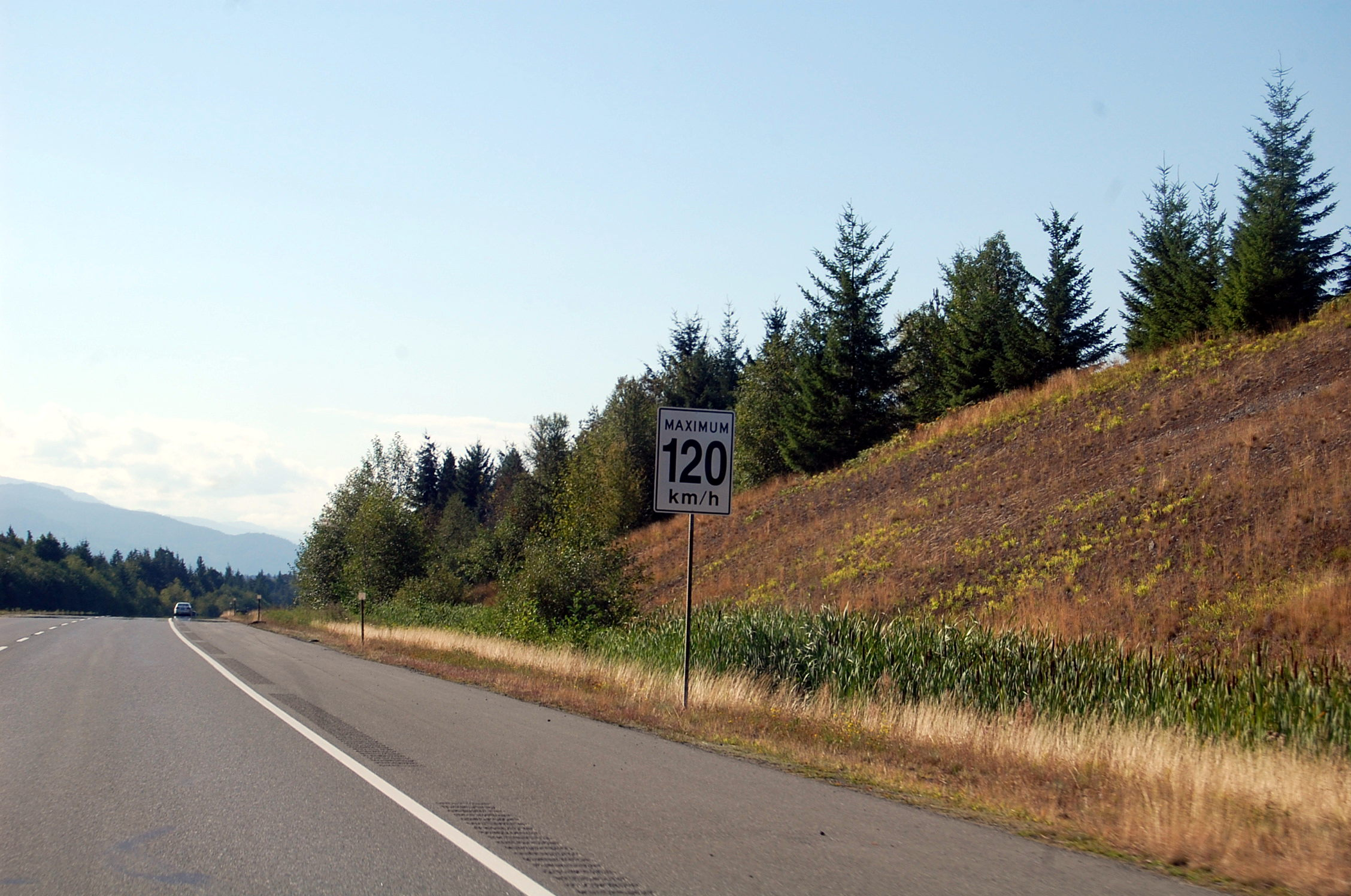 Along Hwy 19, north of Parksville